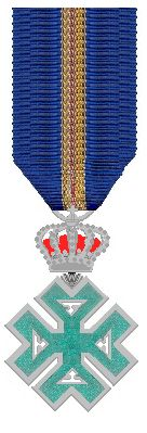 Order of Ferdinand, Rumania